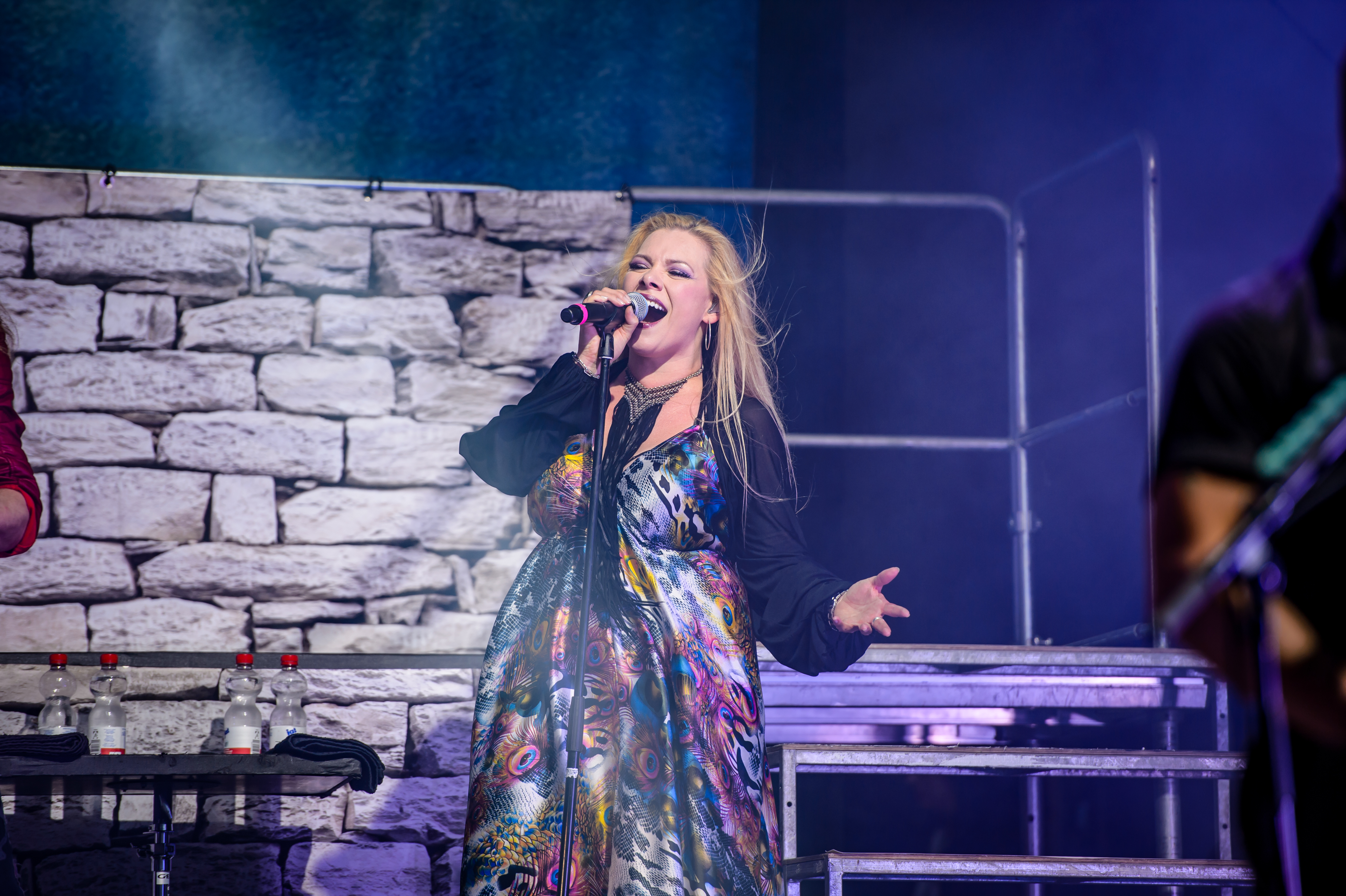 Avantasia; RockFels 2016 - Loreley